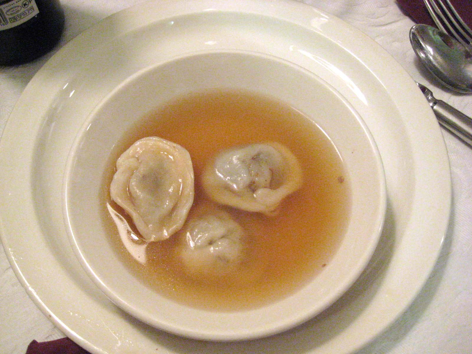 Meat-filled kreplach in clear chicken soup for Rosh Ha'Shana